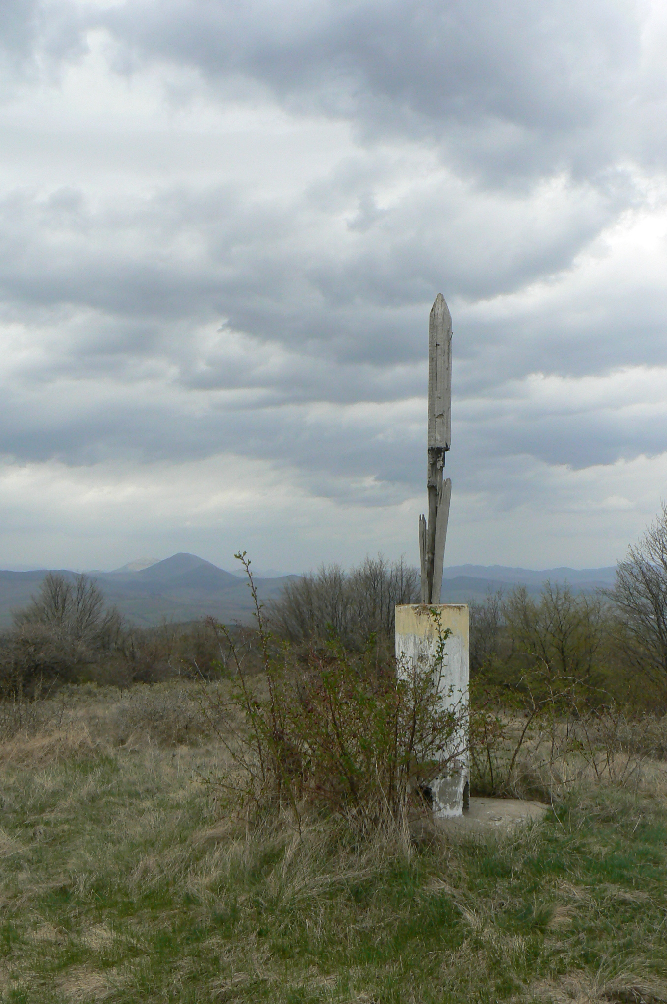 Tumba peak in Cherna Gora mountain, Bulgaria